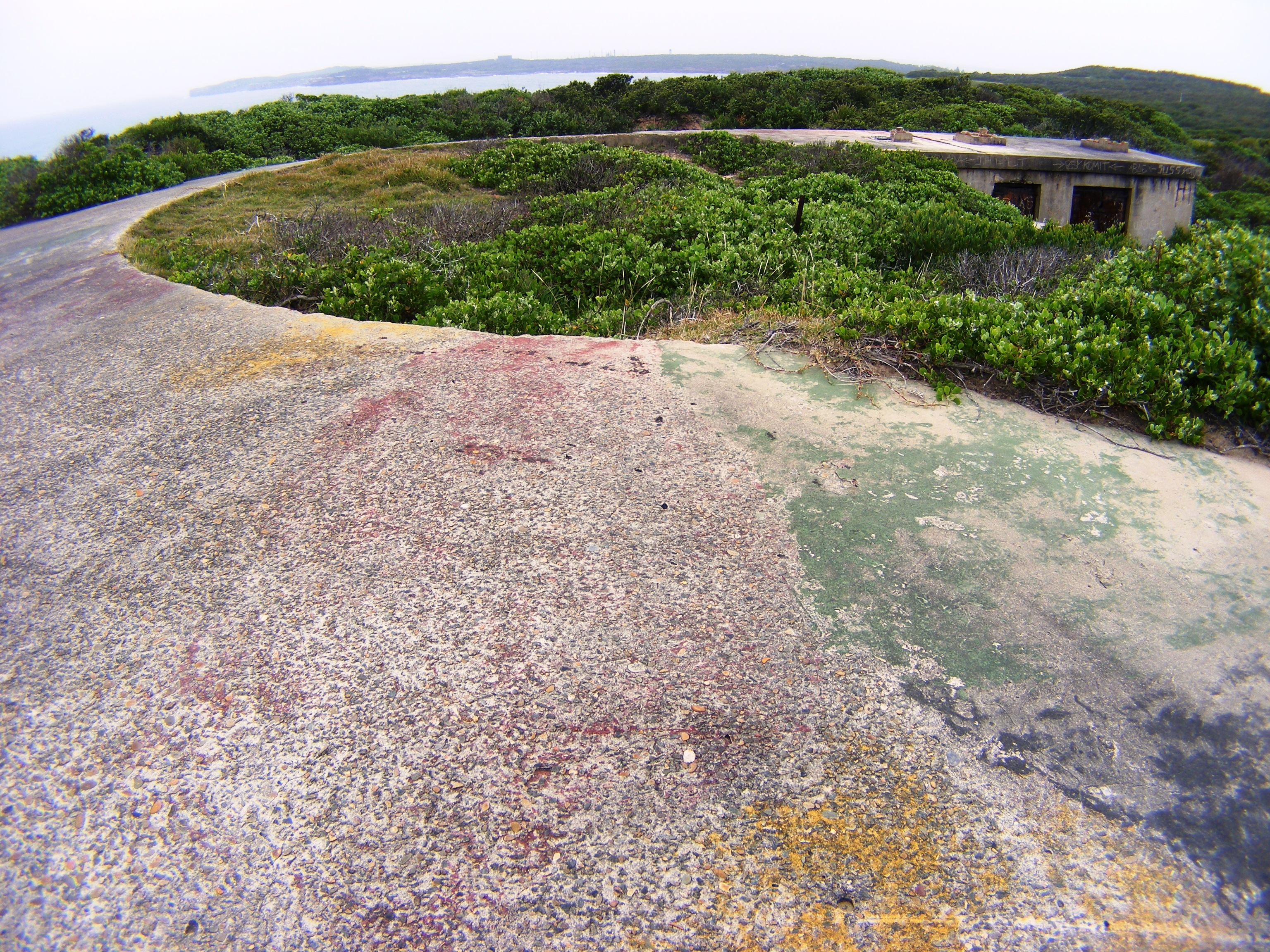 A World War Two bunker that I stumbled upon after hearing about it via word of mouth. It is located in La Peruse, New South Wales and would be quite difficult to find unless you had the rite co-ords.